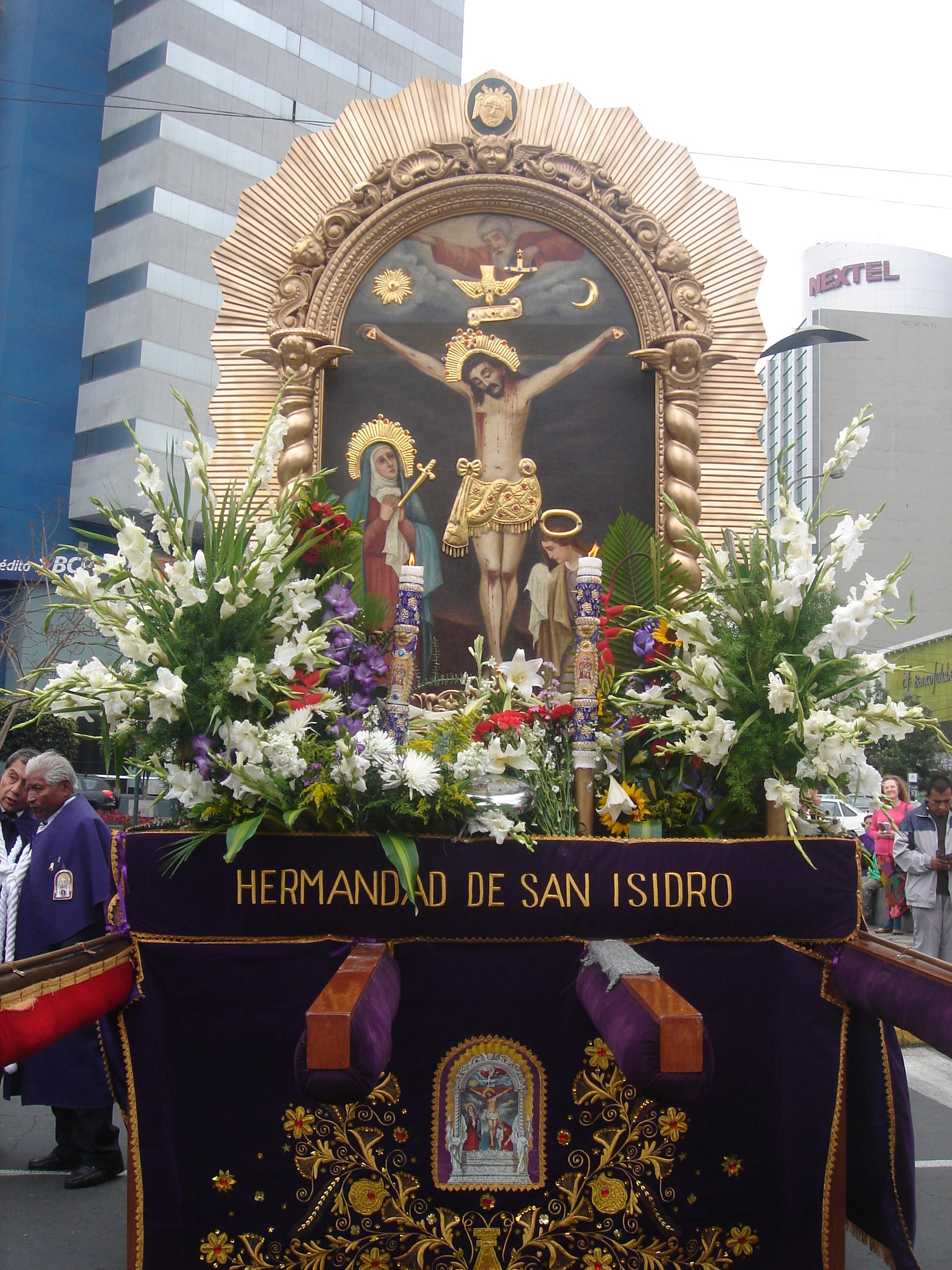 Lord of Miracles - San Isidro District